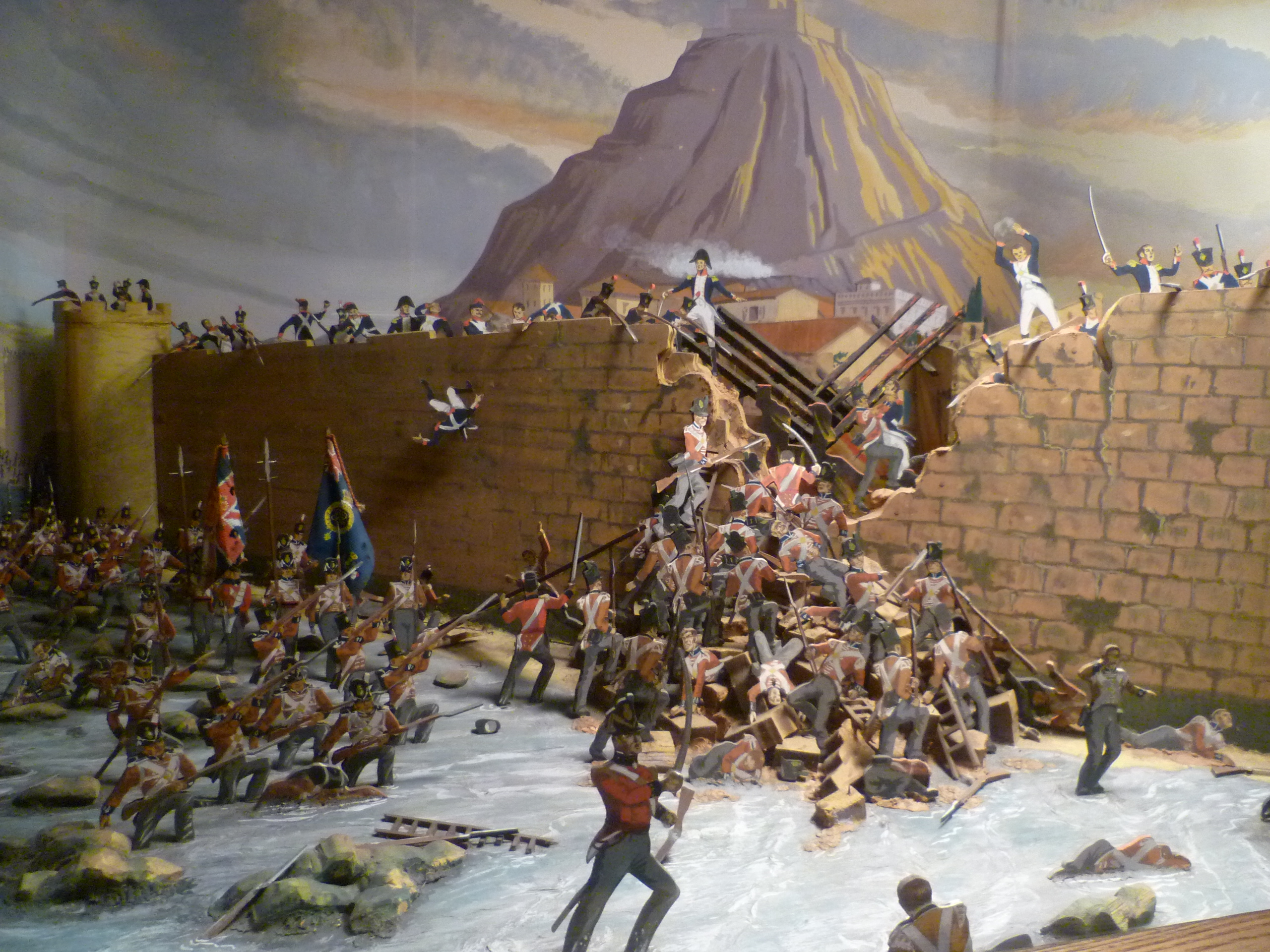 A diorama in the Royal Scots Regimental Museum, Edinburgh Castle